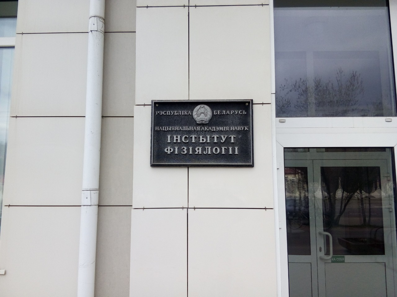 Plaque on the Institute of Physiology of the National Academy of Sciences of Belarus (28 Akademičnaja Street, Minsk; 20th of April, 2019)